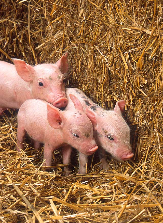 More piglets from Image Number K9455-1 Piglets are one of the main subjects of ARS animal behaviorists. These scientists study behavior of pigs and cows 'round the clock with the goal of improving animal handling practices to reduce stress on animals and lower production costs. Photo by Scott Bauer.